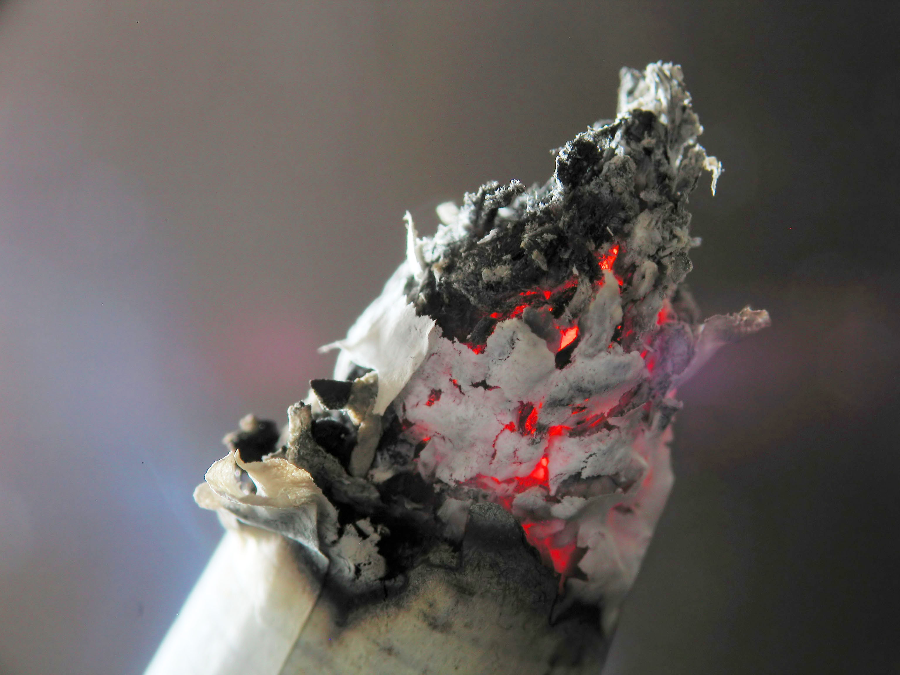 Cigarette ashAsh